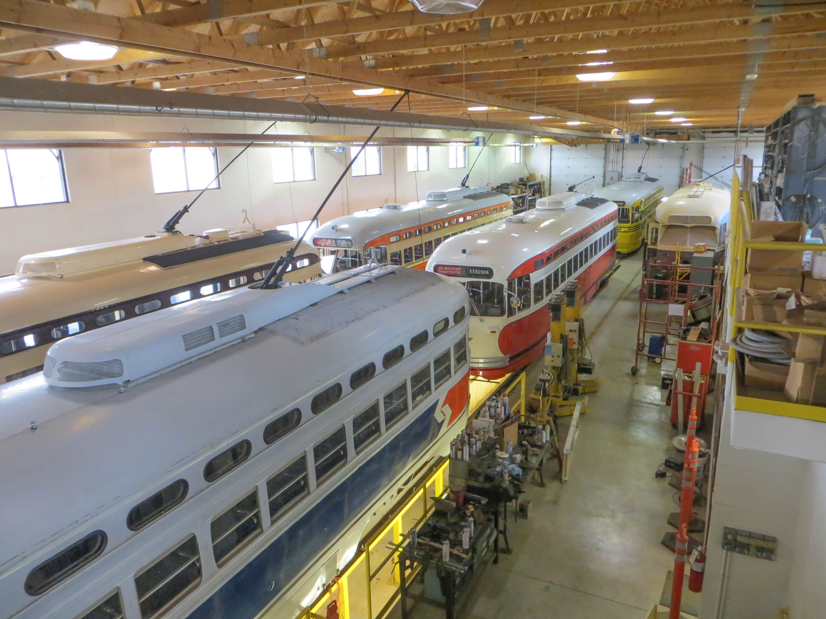 Interior of the Kenosha streetcar system's carhouse and maintenance shop, with six of its fleet of PCC-type streetcars in view.